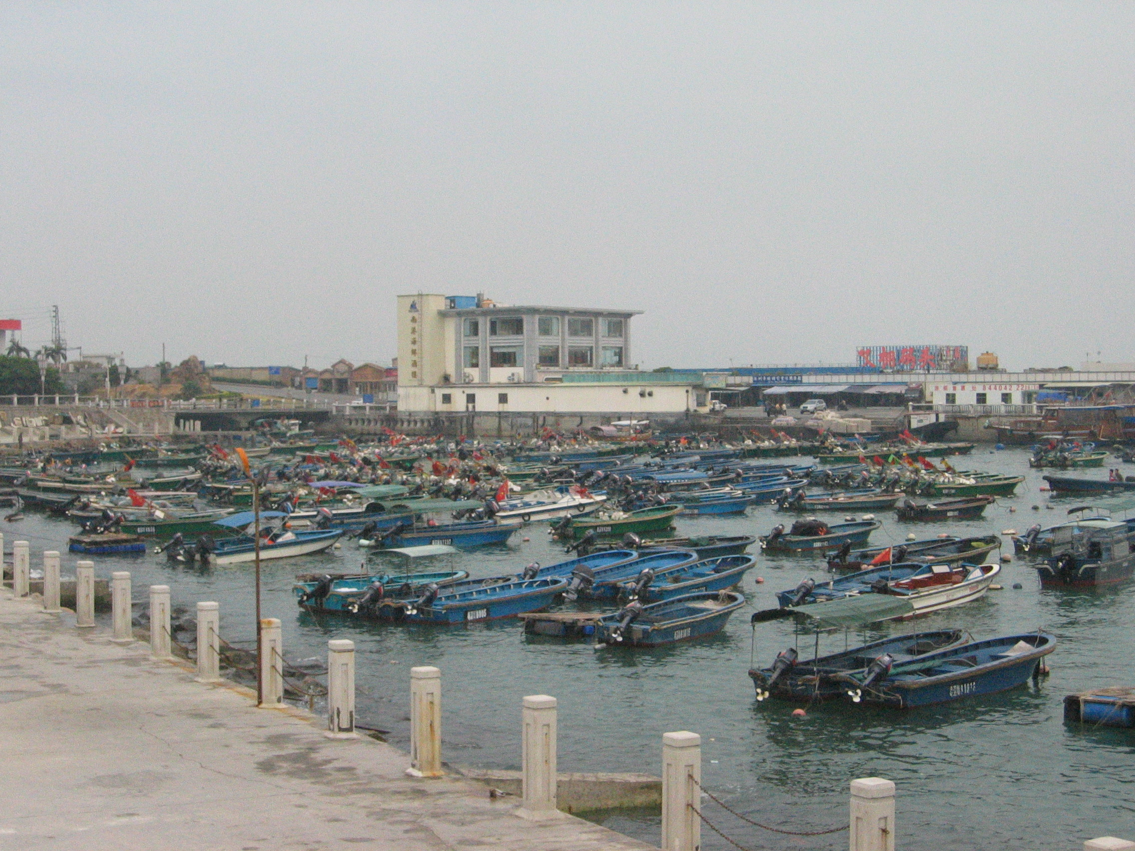 Nanao Street, Longgang District, Shenzhen, Guangdong, China